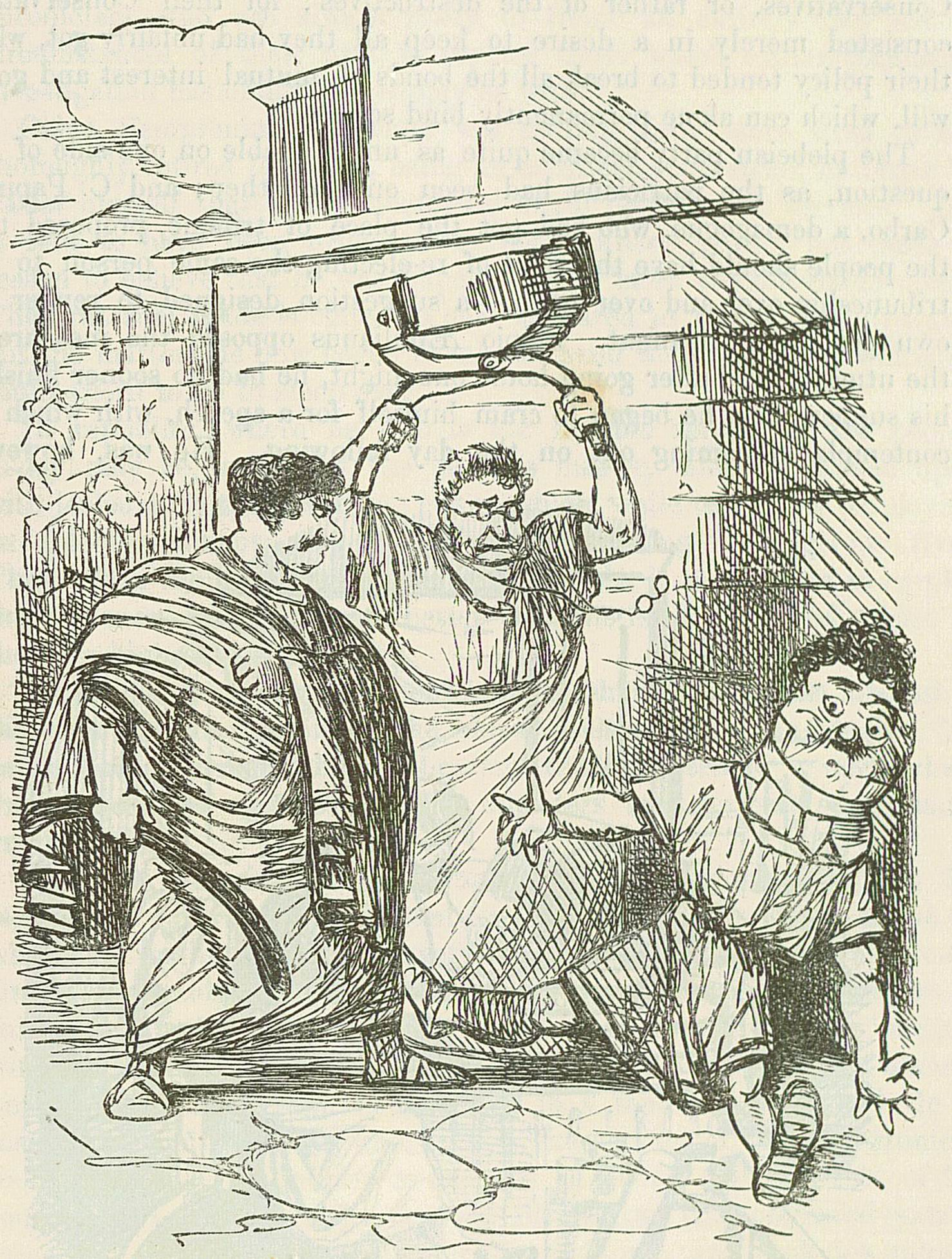 Image by John Leech, from: The Comic History of Rome by Gilbert Abbott A Beckett. Bradbury, Evans & Co, London, 1850s Melancholy end of Tib. Gracchus